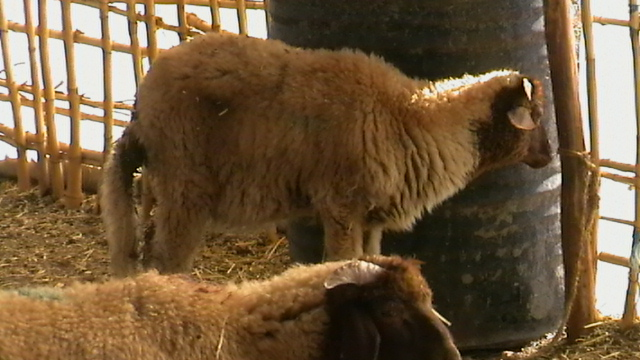 Ovine rinderpest : arched back and up-held tail (pain to defecate) Walon: Pesse des bedots et des gades : tchamlou dos et cawe tinowe e l' air (doleur å schitaedje)